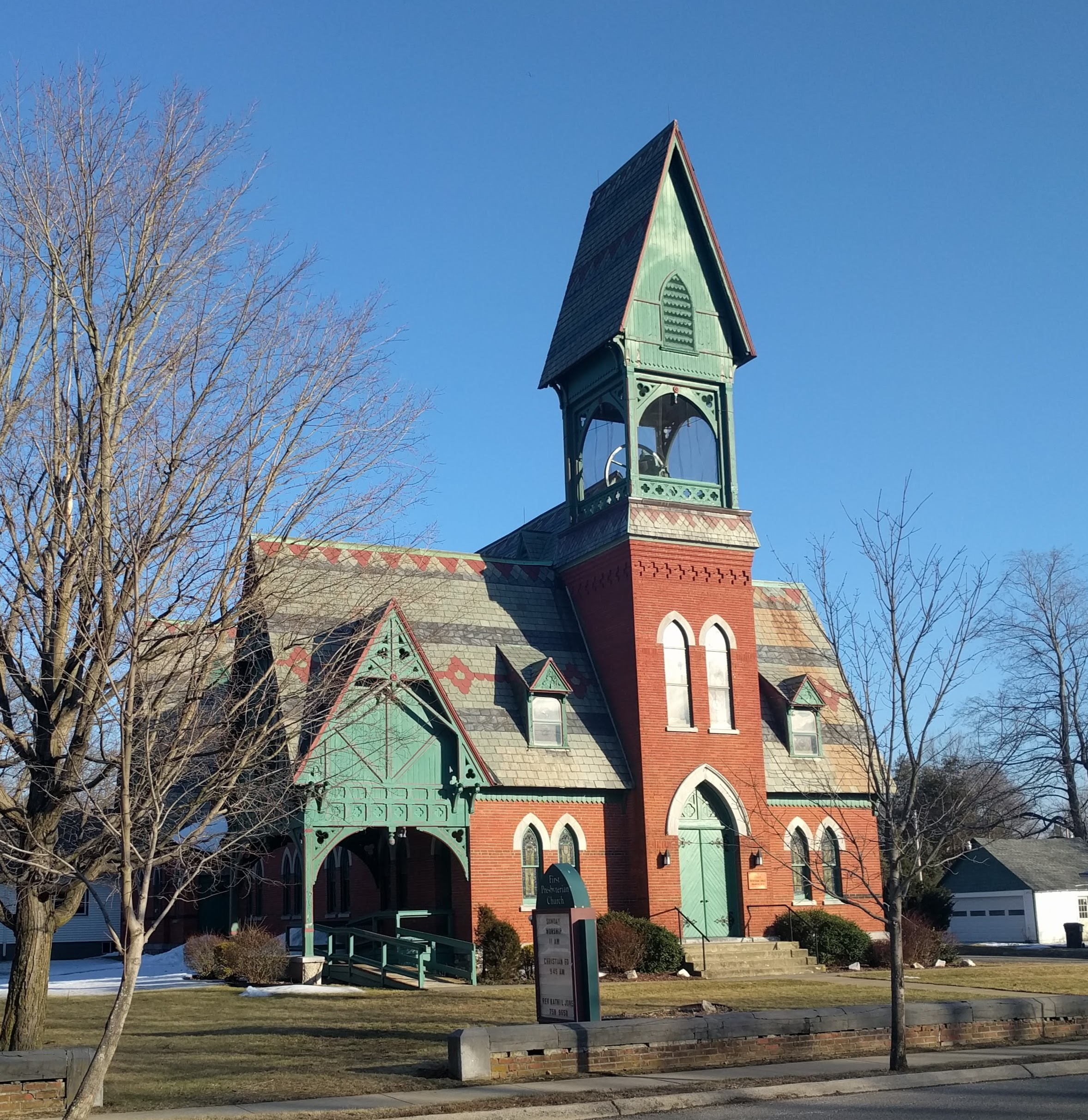 First Prebyterian Church, Valatie, 2017